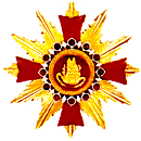 Symbolic representation of Korean Great Order of Mugunghwa